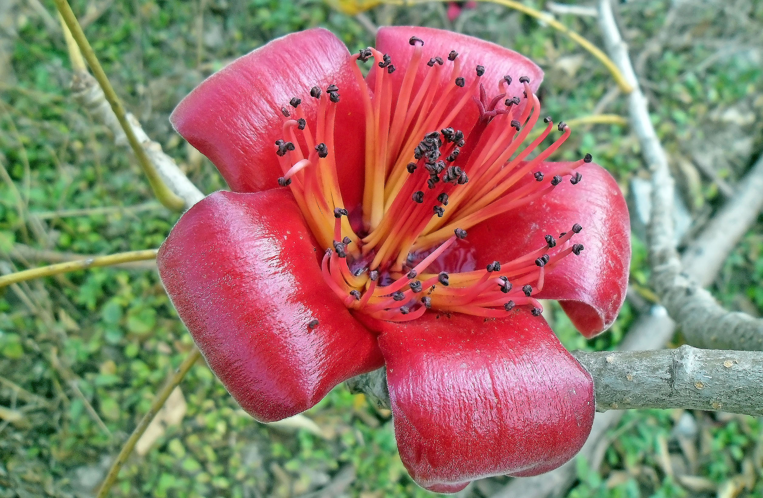 A Bombax ceiba flower or Cotton Tree in full bloom on the living branch of the tree as Photographed by Earth100 on March 10 2013 at Tung Chung, Lantau island, south western Hong Kong. The nectar can even be seen in the center of the Flower, indicating it's maturity.